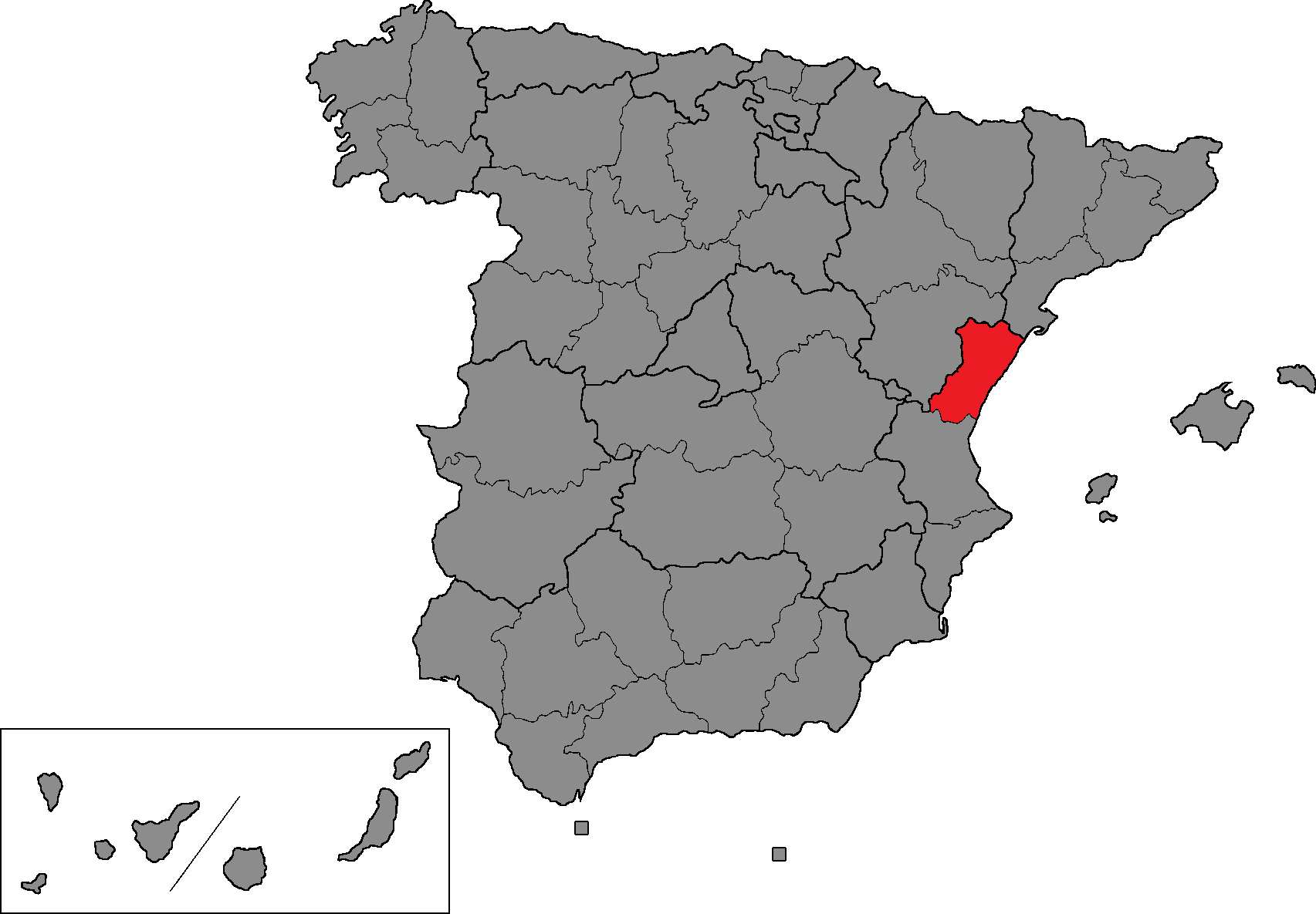 Spanish Congress of Deputies district of Castellón.